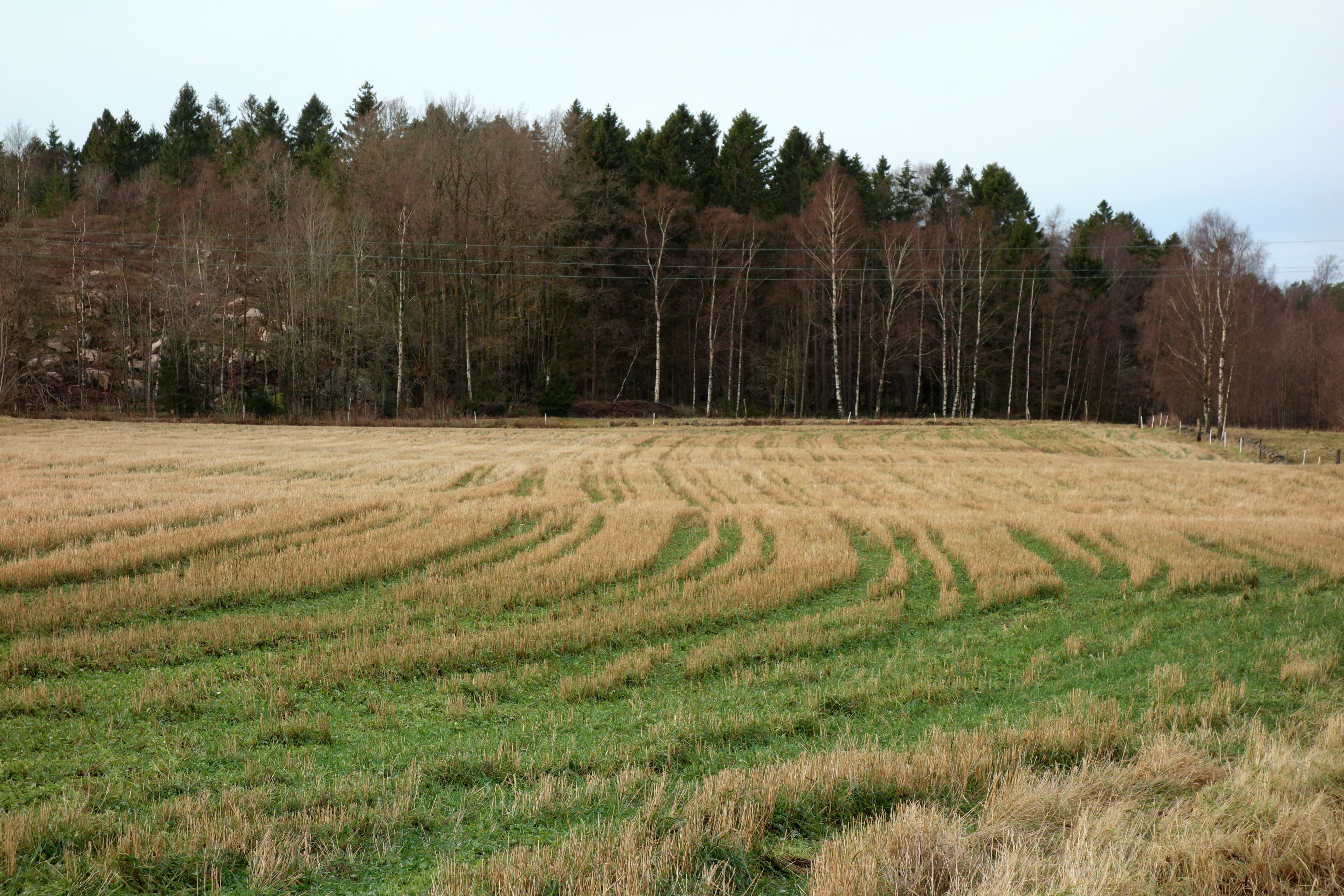 Stubble field in Brastad, Lysekil Muniipality, Sweden.